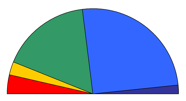 Greek legislative elections, 2007 Nea Dimokratia: 152 seats PASOK: 102 seats KKE: 22 seats SYRIZA: 14 seats LAOS: 10 seats